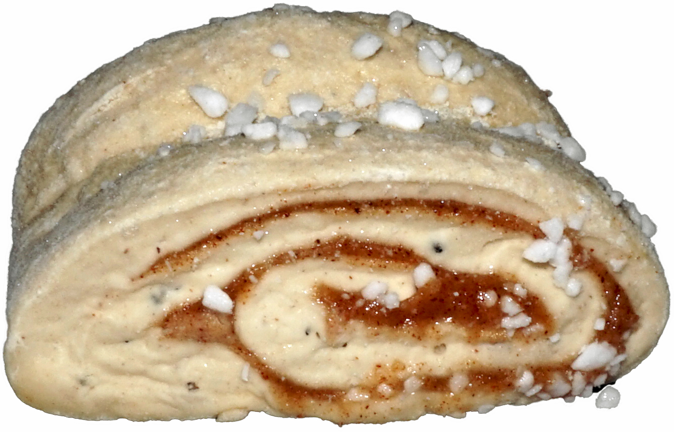 Raw pulla (cinnamon roll). Frozen convenience product.